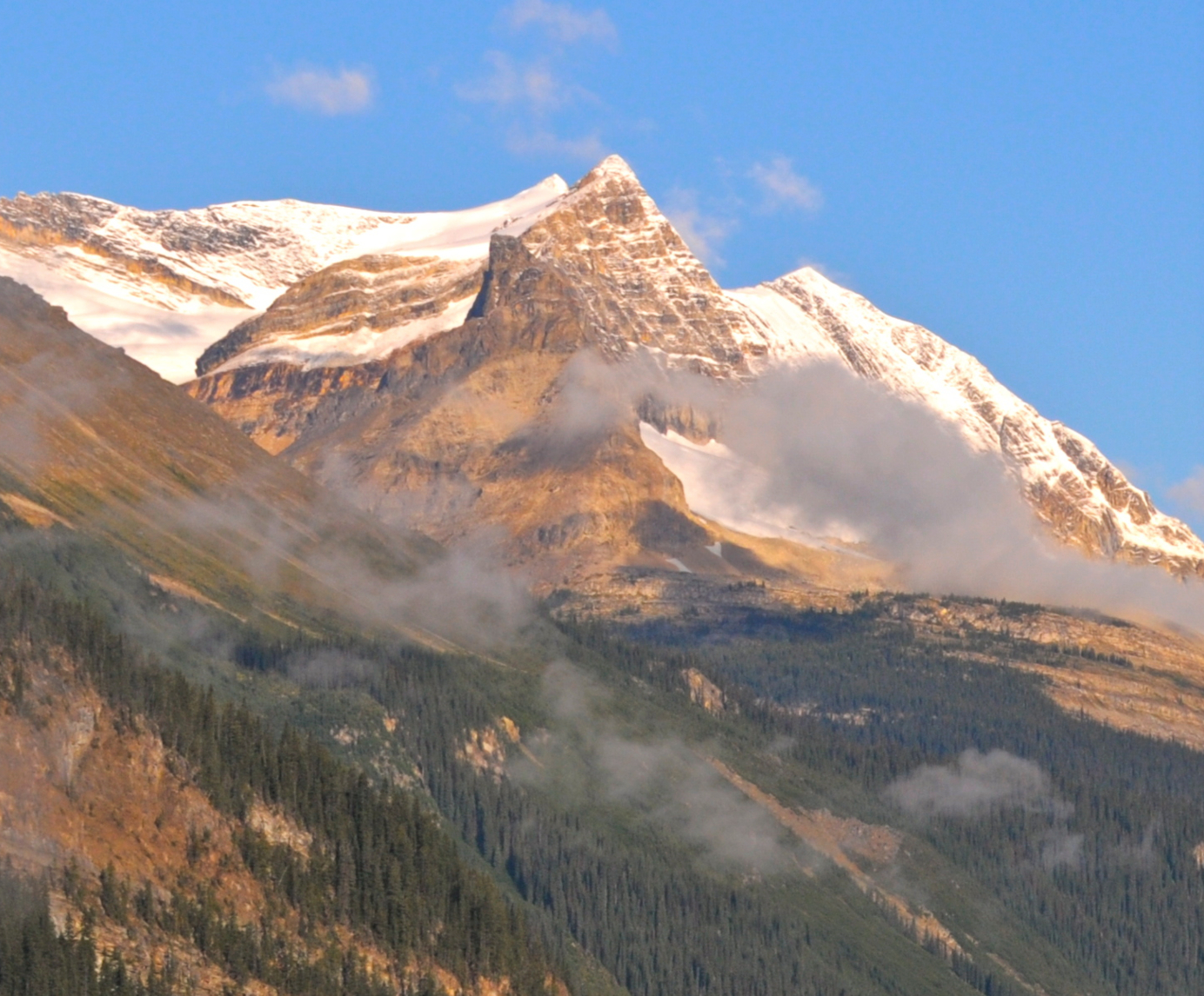 Michael Peak seen from Highway 1 by looking up the Yoho River valley, Yoho Park, Canada